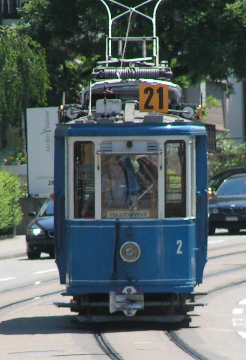 Zürich tram 2, a two-axle car built in 1928 by Schweizerische Wagons- und Aufzügefabrik AG Schlieren (SWS), running on heritage tram service 21.